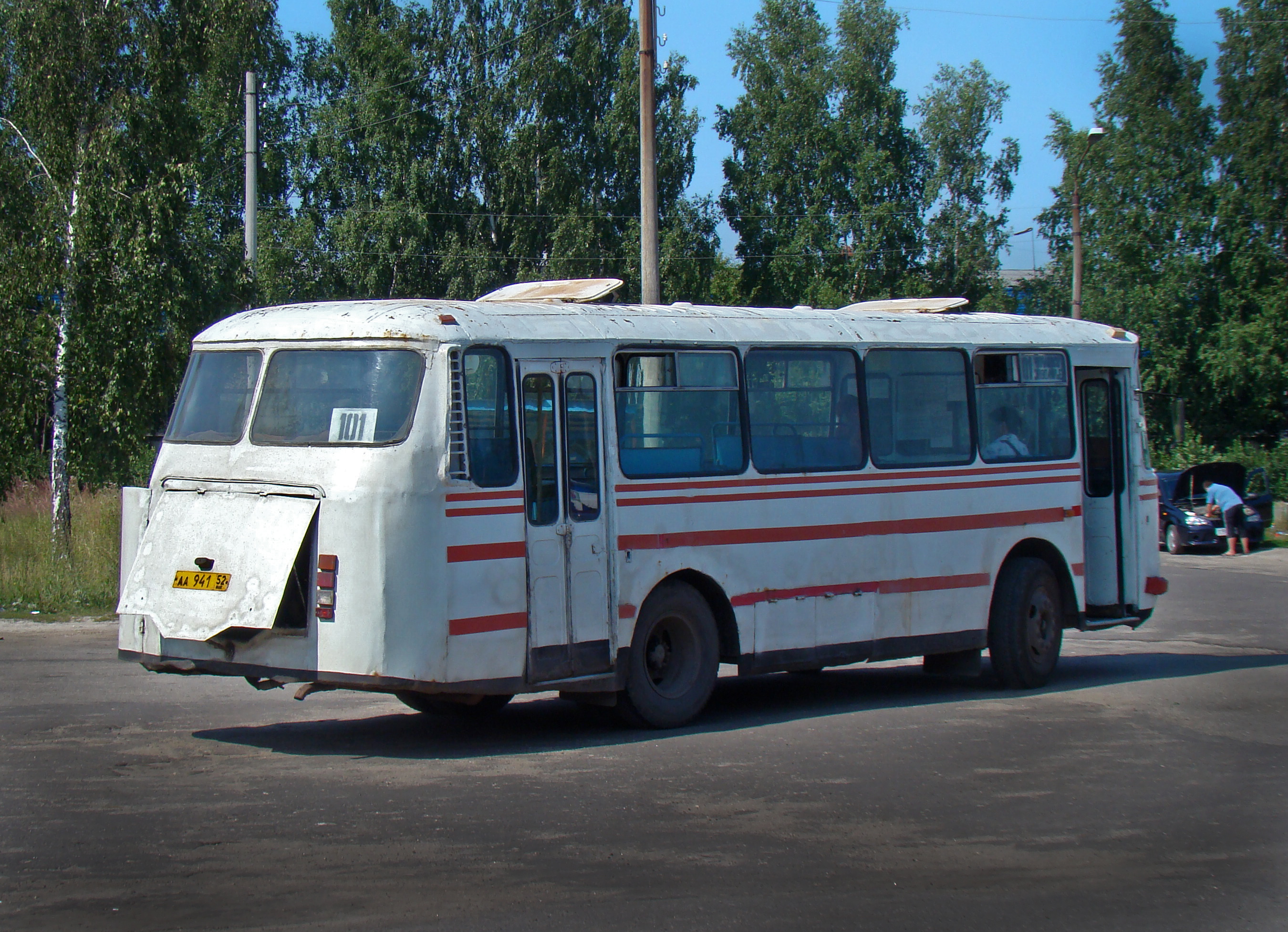 LAZ-695N